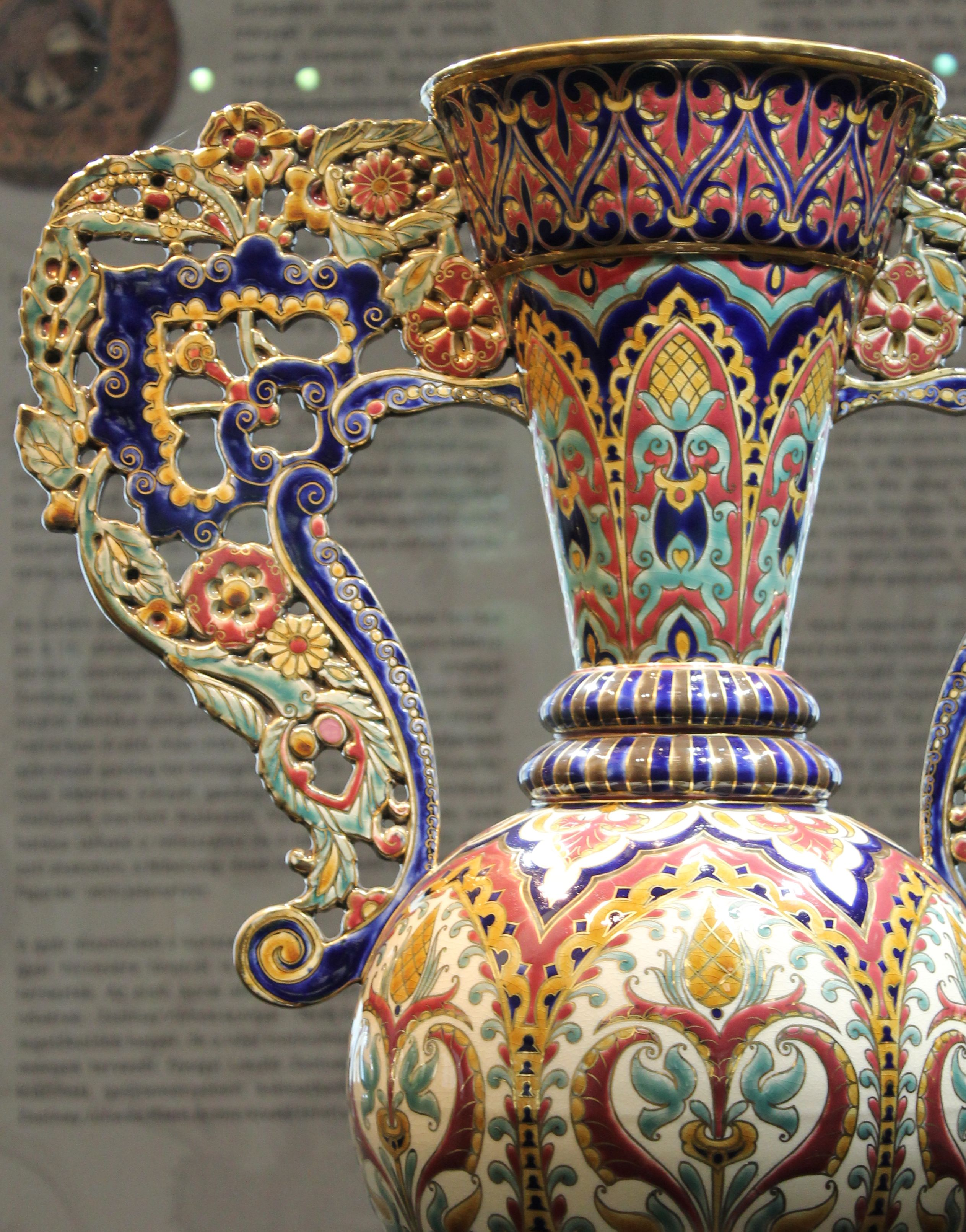 Monumental Alhambra vase from the Gyugyi Collection, exhibited in the Zsolnay Cultural Quarter, Pécs, Hungary. Designer: Tádé Sikorski, 1884